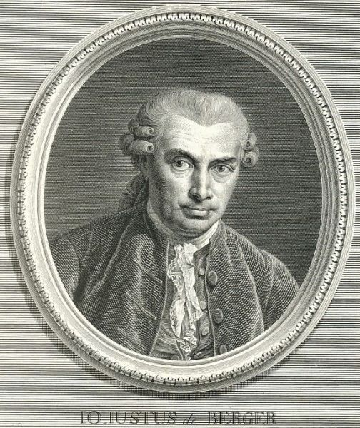 Engraving of Johann Just von Berger (* 1723 in Celle; † 16. Mar 1791)